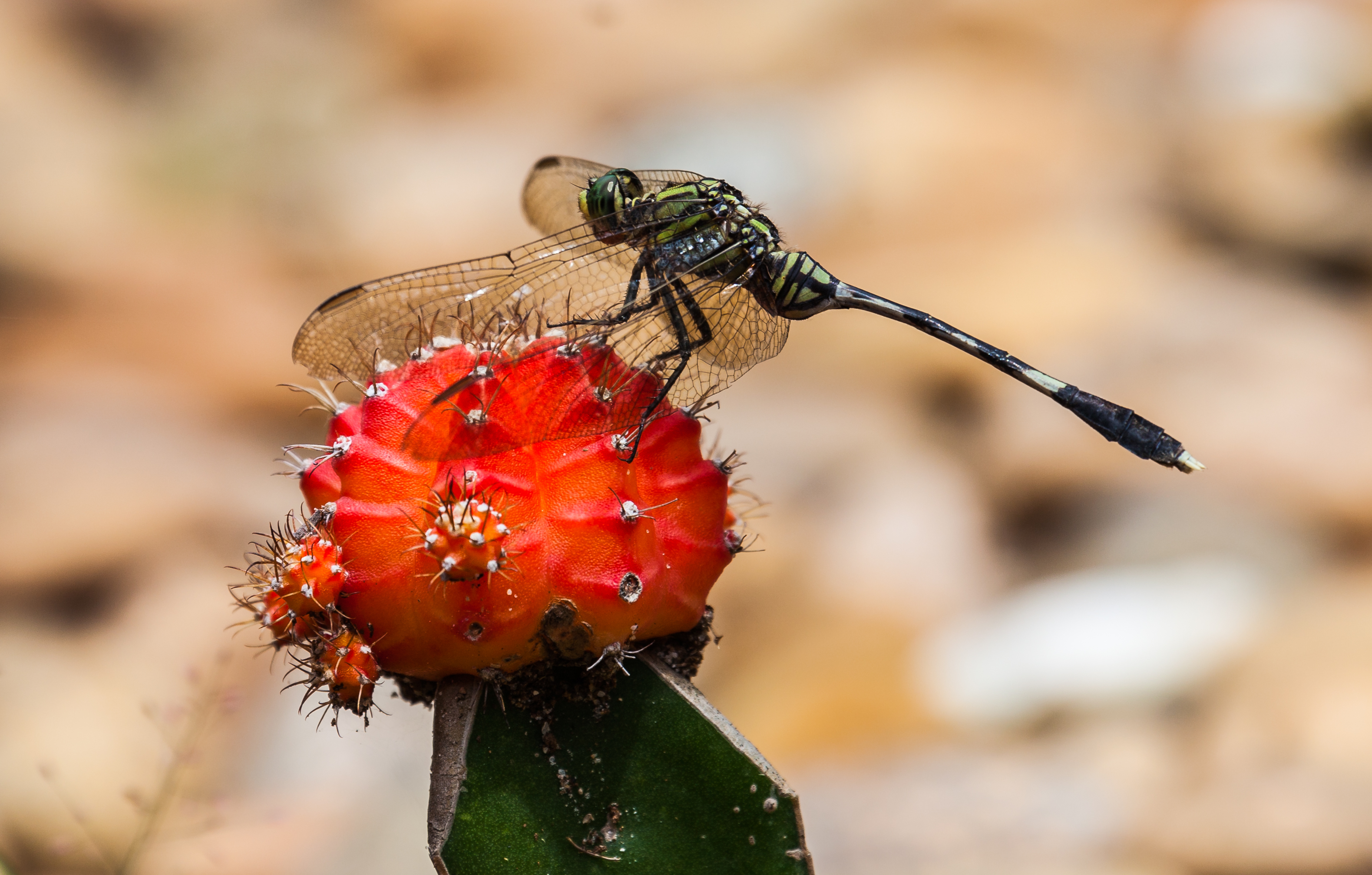 Dragonfly (Orthetrum sabina) on a Gymnocalicium mihanowichii, Ho Chi Minh City, Vietnam